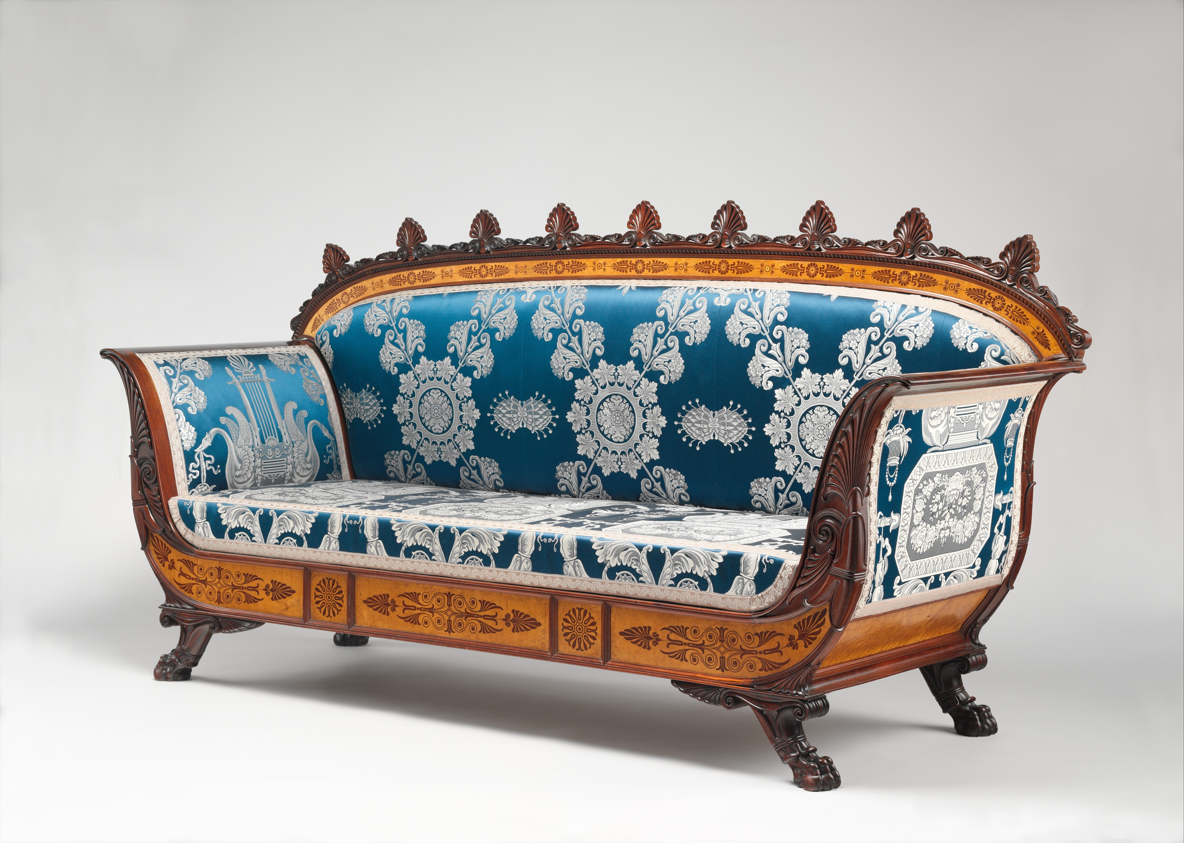 Italian, Piedmont; Sofa; Woodwork-Furniture